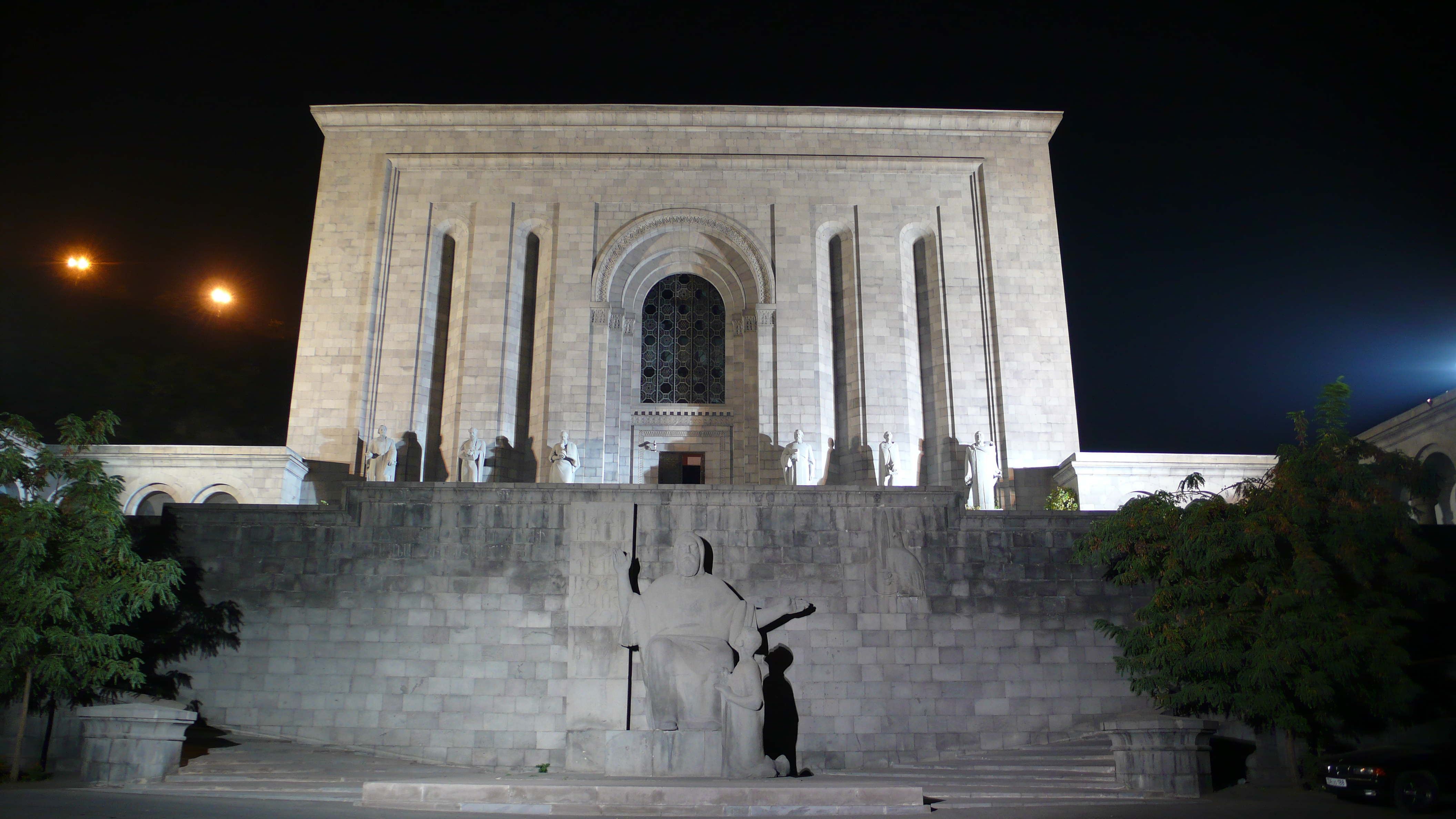 Matenadaran in Yerevan, Armenia